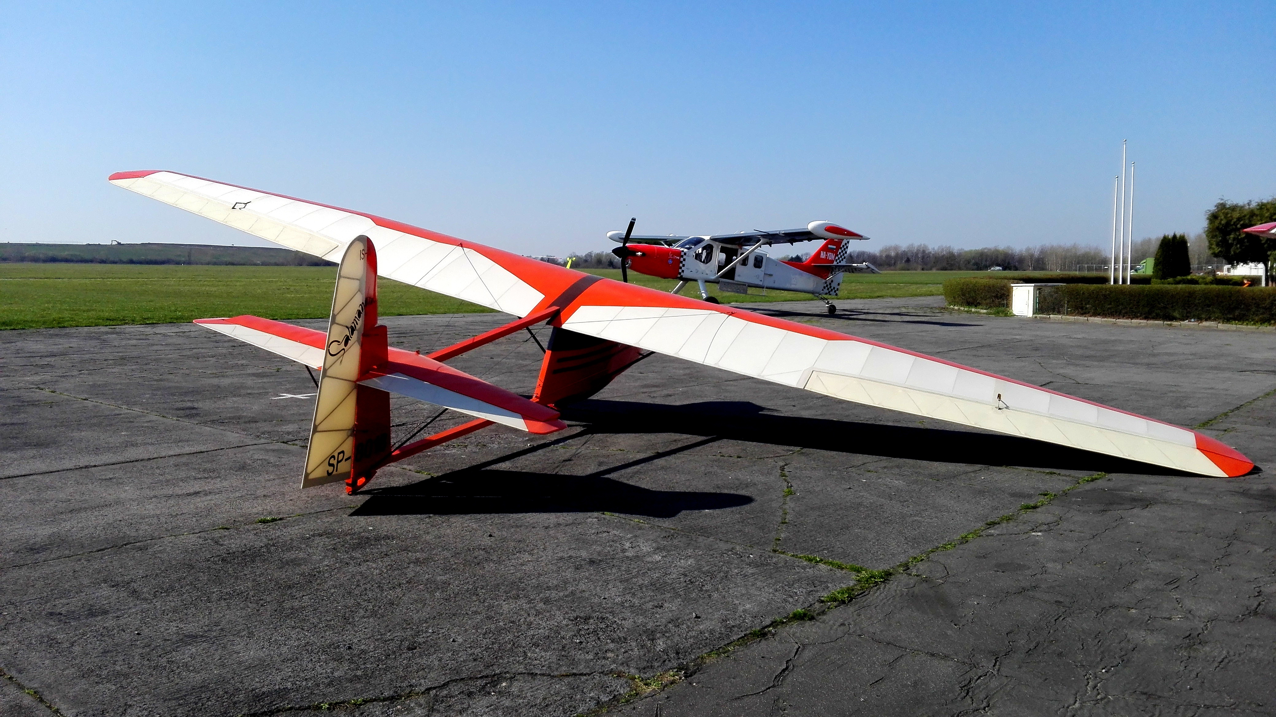 IS-A Salamandra